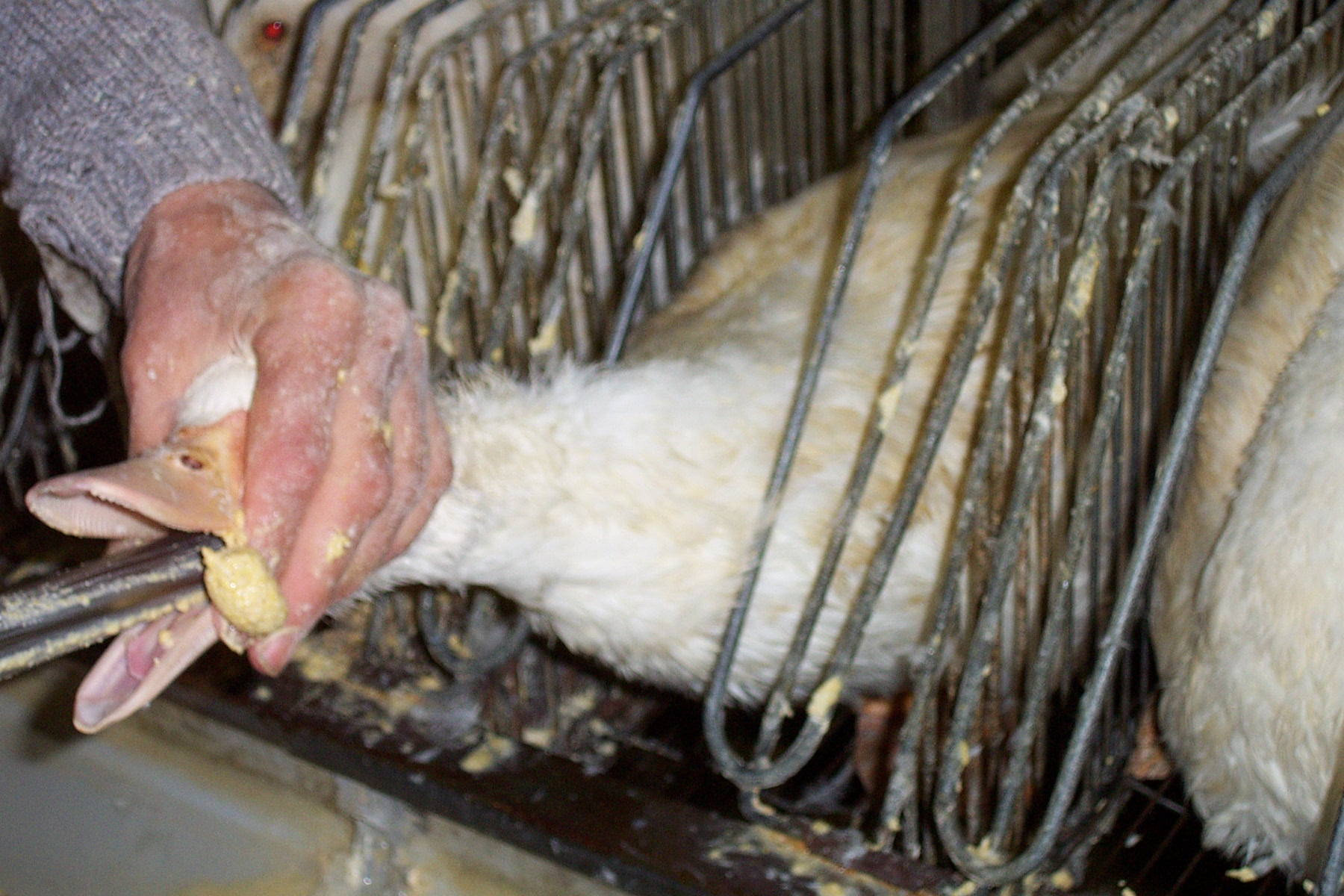 Copyrighted by Gaia (Global Action in the Interest of Animals); The copyright statement in French allows use when mentioning source.